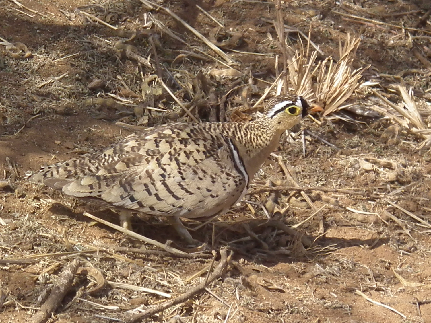 Black-faced Sandgrouse at Tanzania.